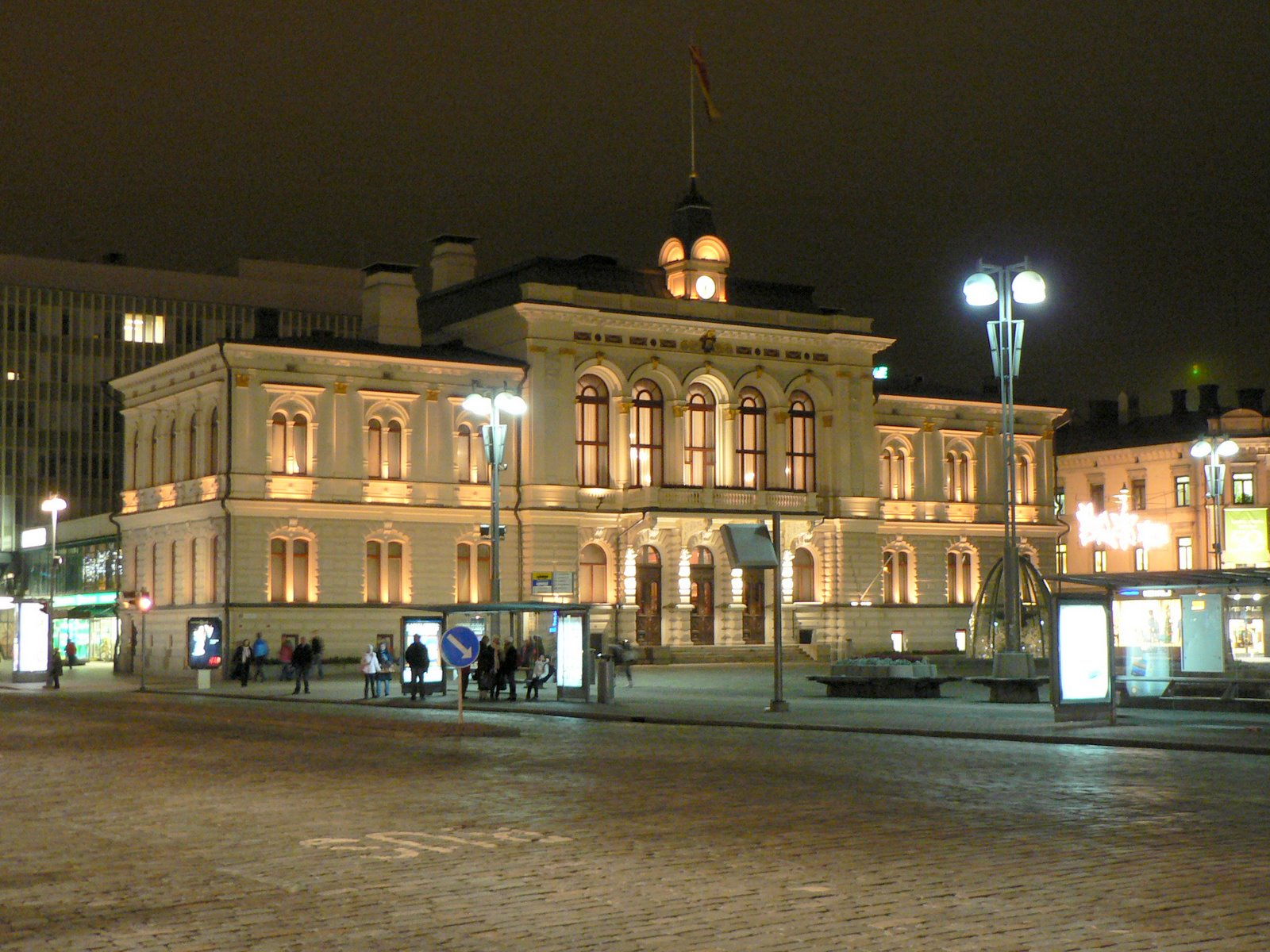 Tampere City Hall